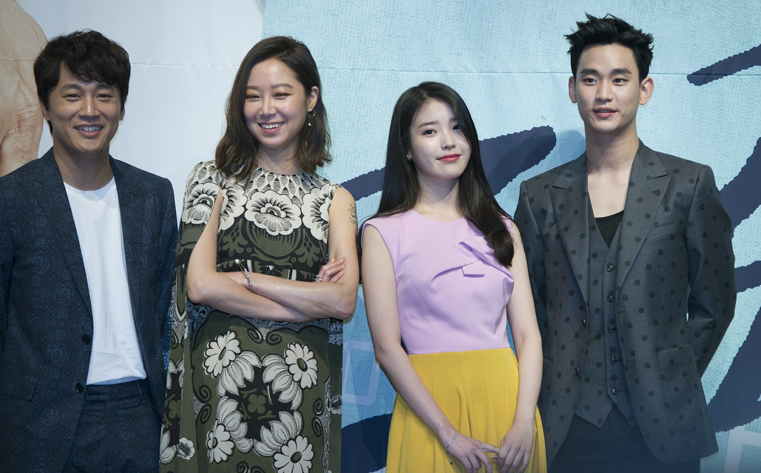 KBS "The Producers" press conference, 11 May 2015. Cha Tae-hyun, Gong Hyo-jin, IU and Kim Soo-hyun.